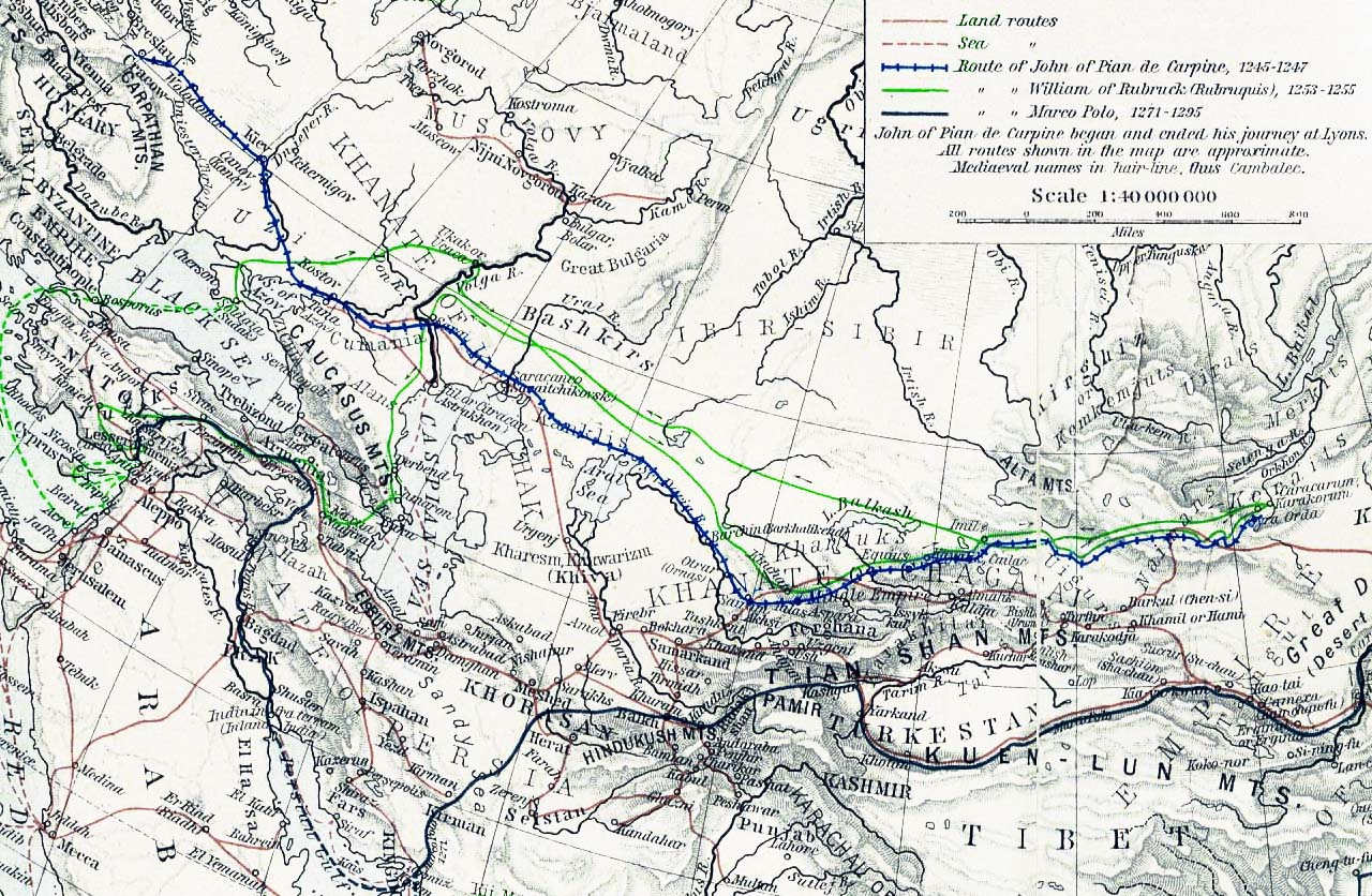 Mediaeval trade routes in central Asia. Modified map based on Sheherd Mediaeval Commerce (1923/first edition 1911)